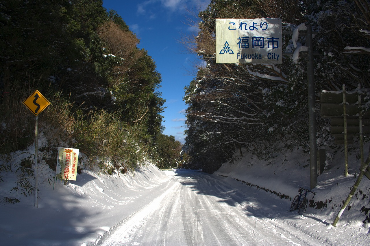 Snow-covered Mitsuse Pass